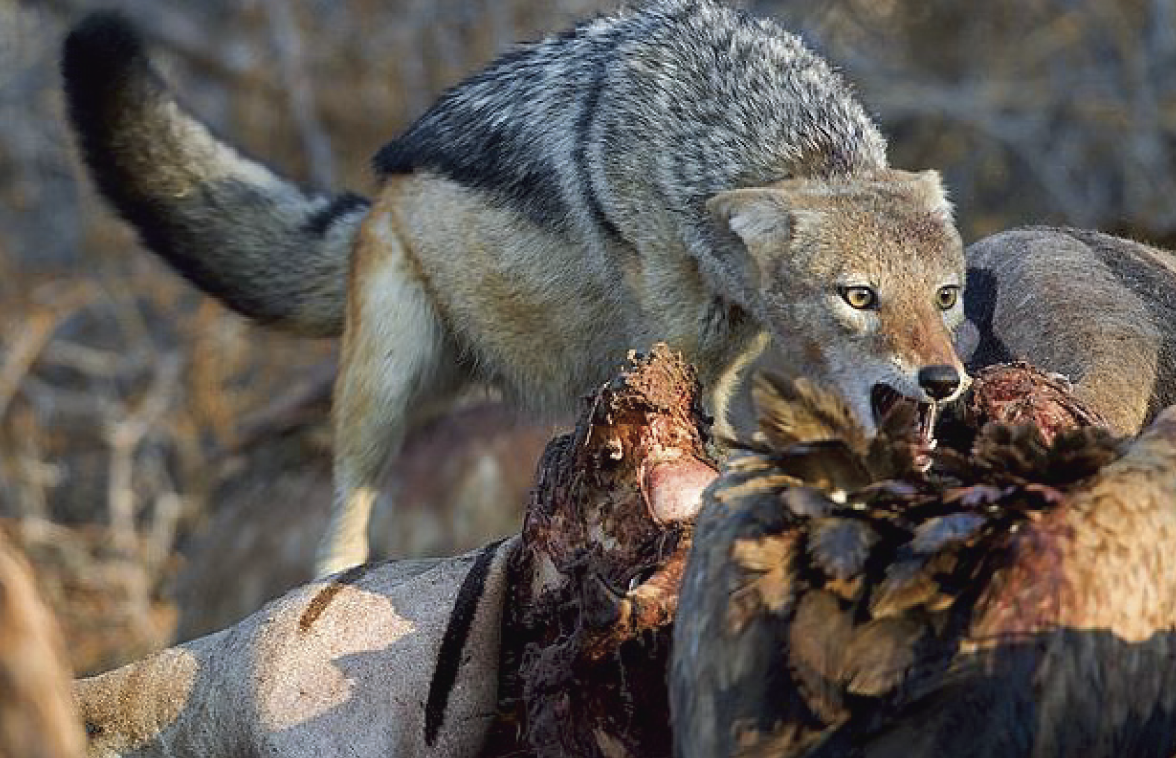 A black backed jackal (Canis mesomelas) scavenges on a zebra (Equus quagga) kill (Photo: Chris Fallows).